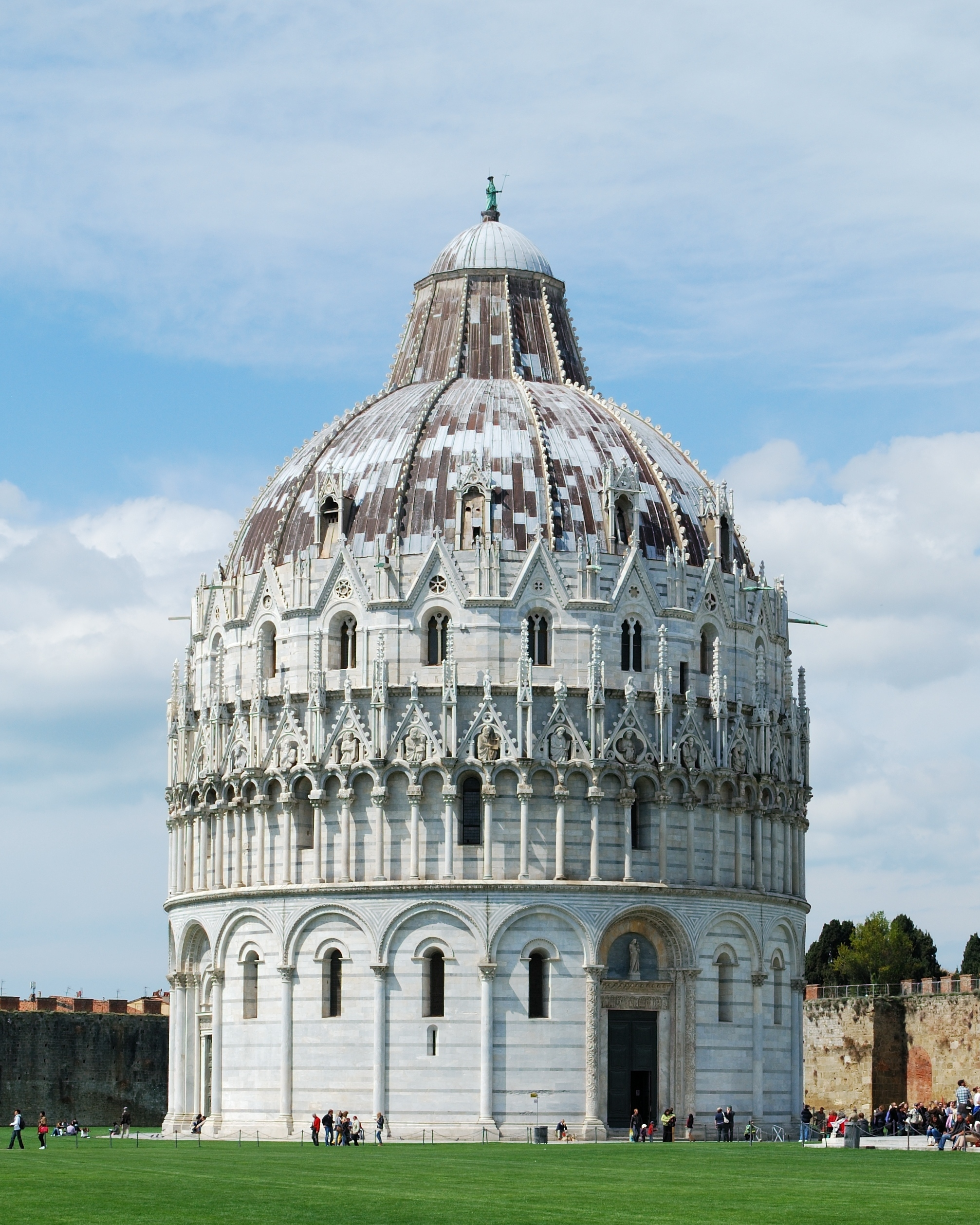 Pisa baptistery